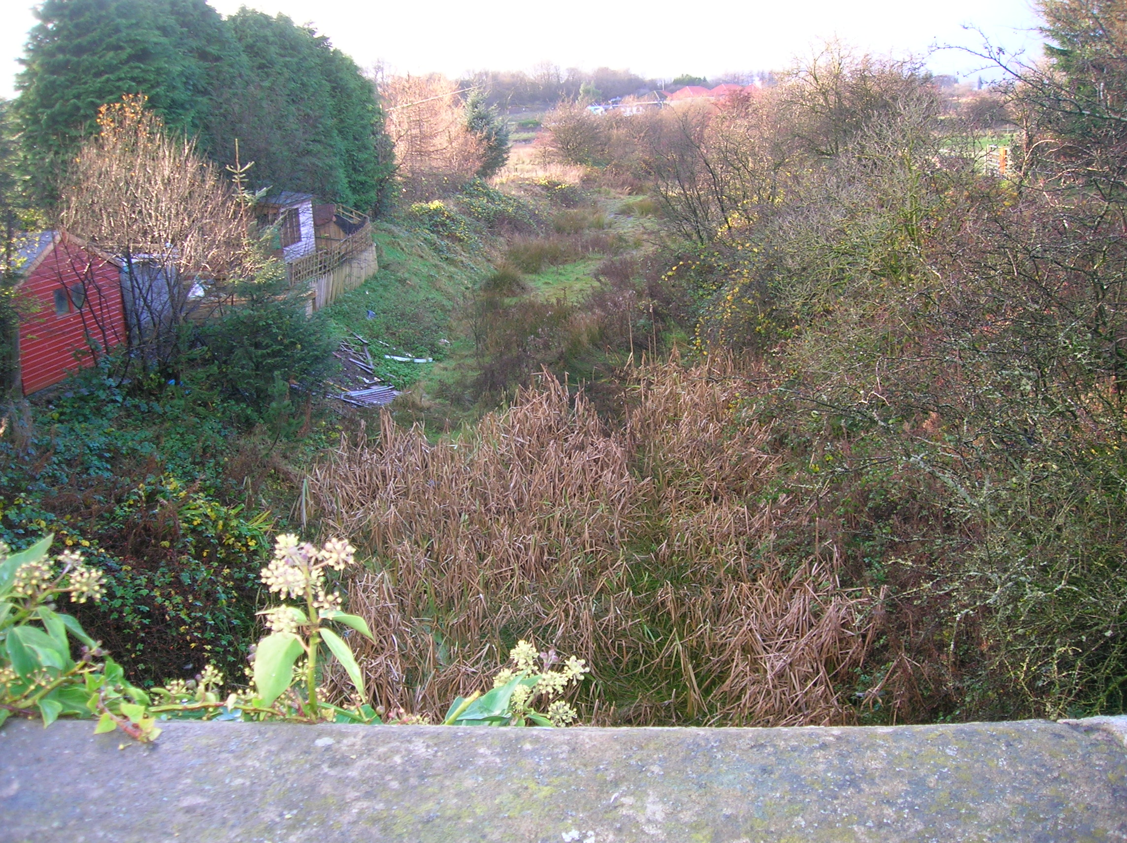 View from Barrmill old railway station towards Beith at the site of the junction of the old Dockra Mineral railway.